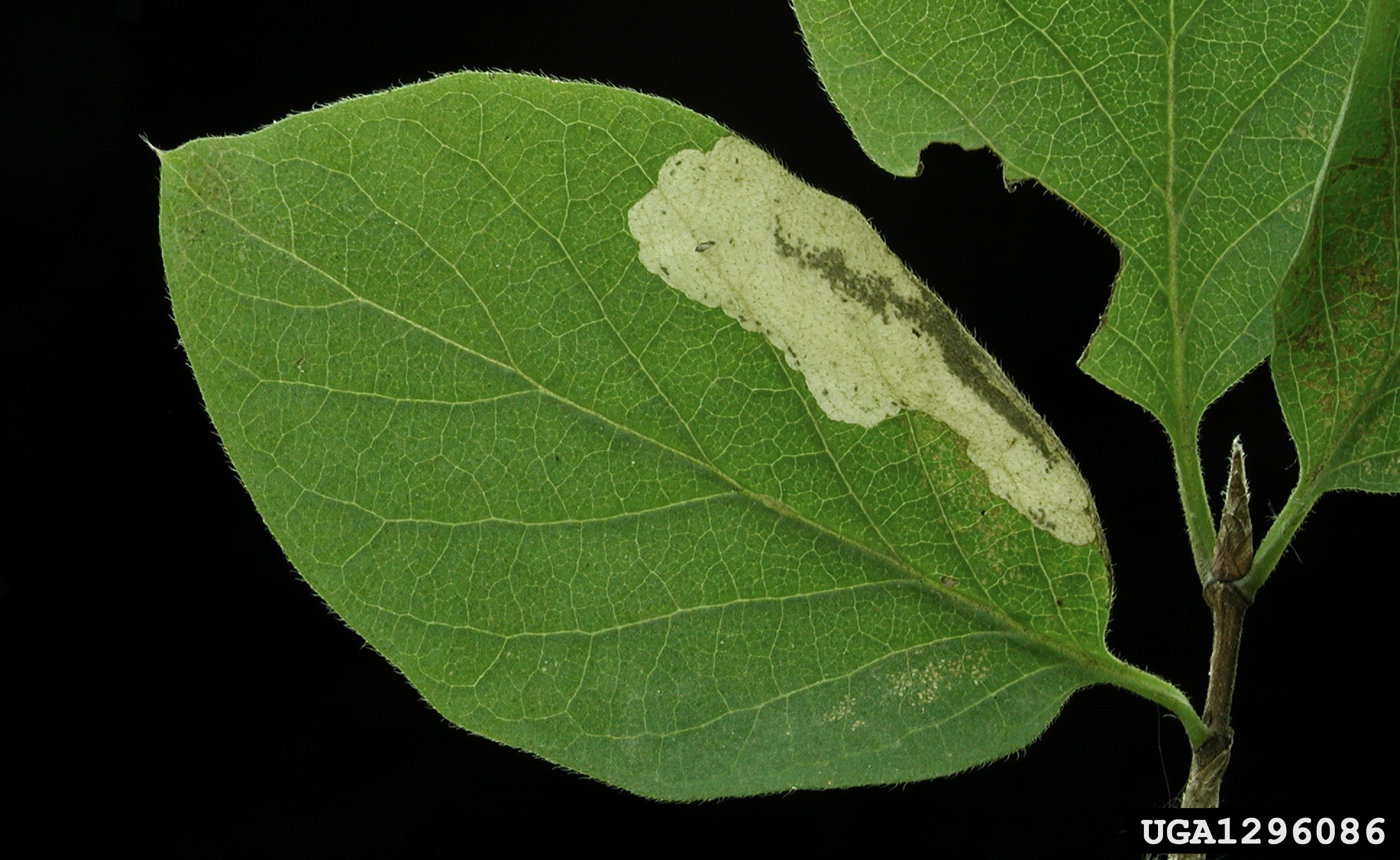 Mine-damage by the twenty-plume moth (Alucita hexadactyla)